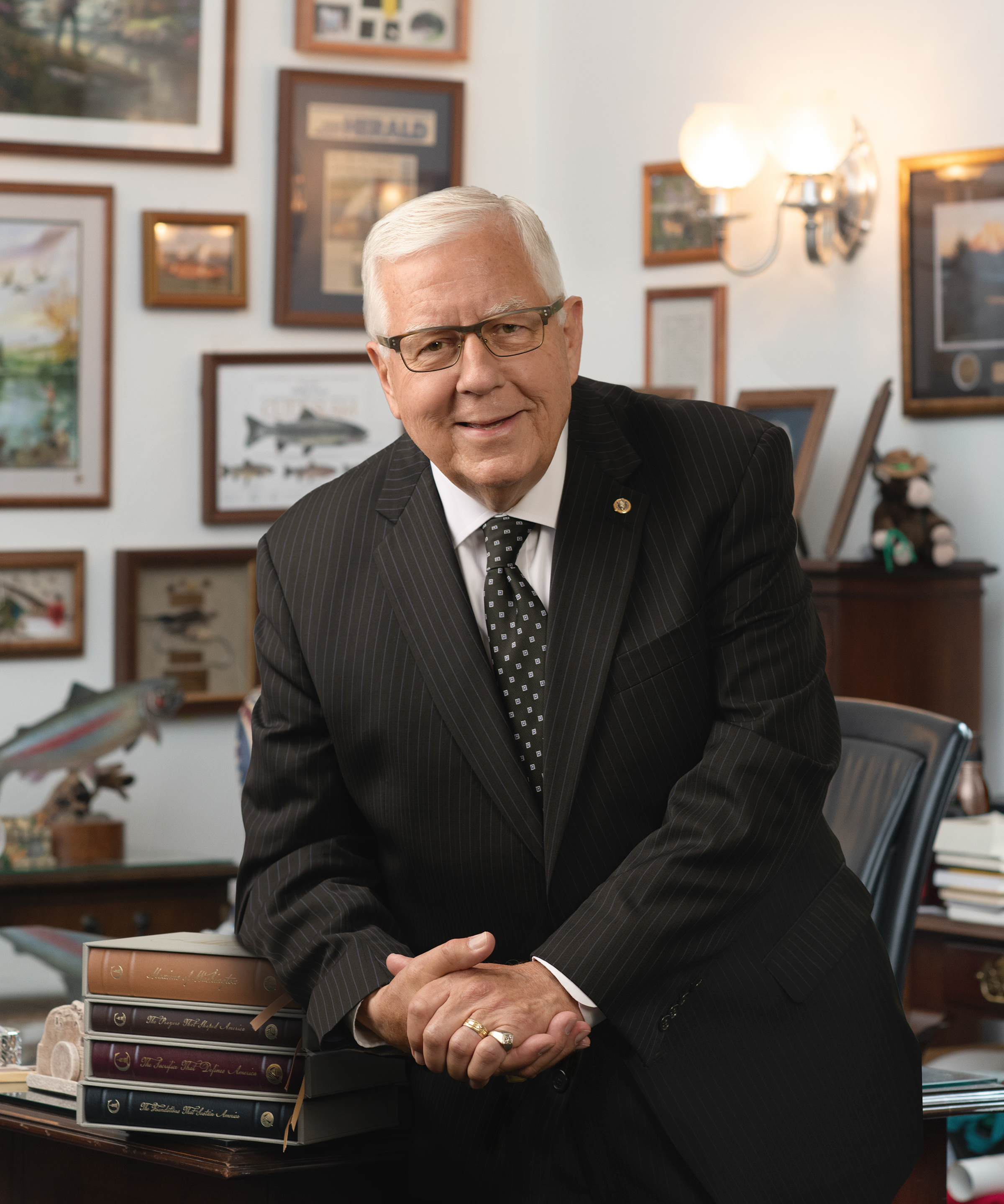 Official portrait of United States Senator Mike Enzi (R-WY).